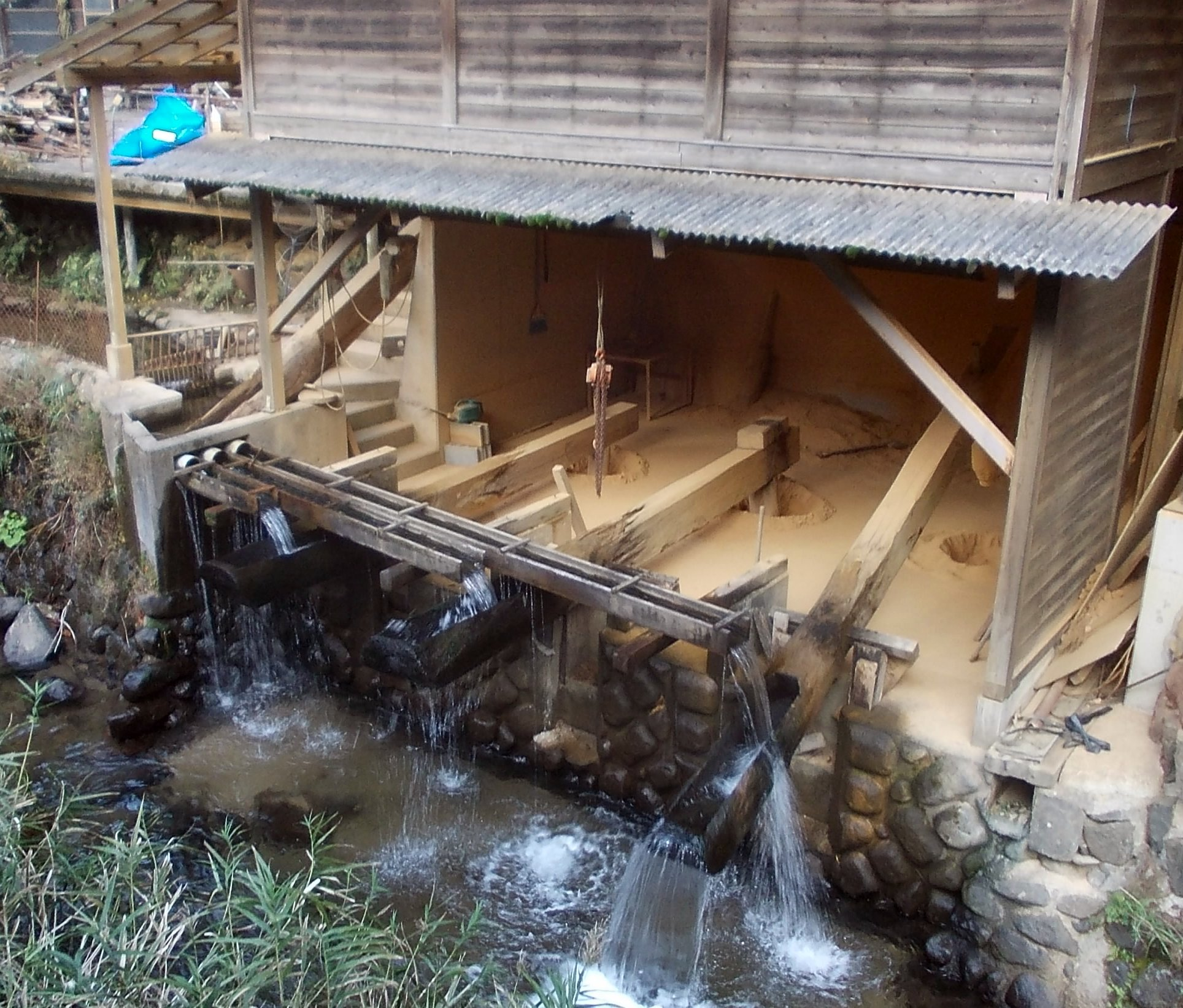 China handmill of Onta Sarayama, Hita, Oita, Japan.